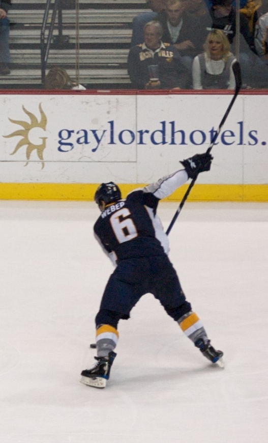 Slap shot from Weber at a game between Nashville Predators and Detroit Red Wings.